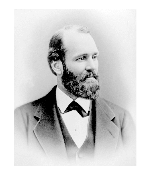 Photo taken 1870 Photograper Unknown BC Archives #B-00667 [1]